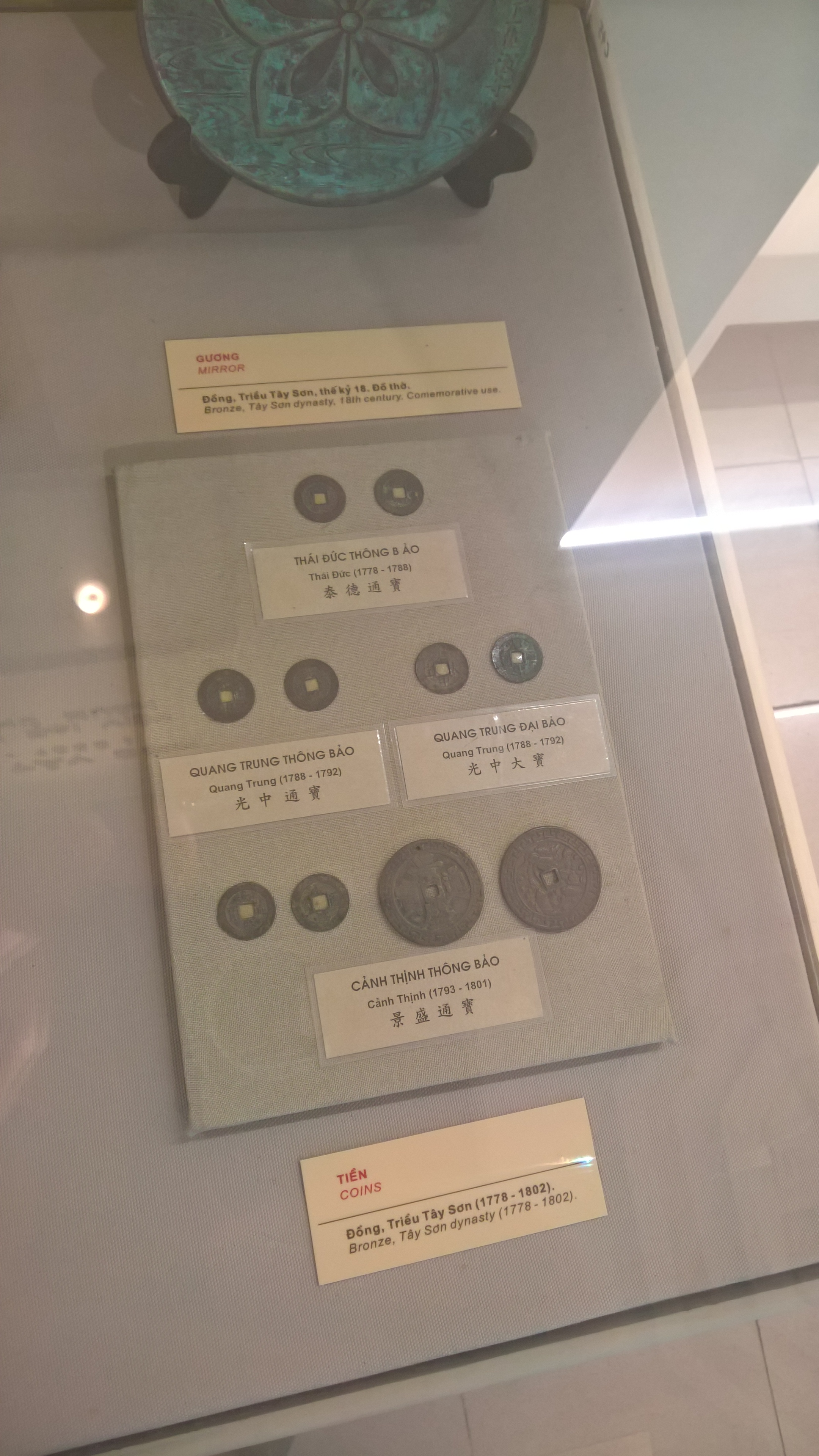 Various cash coins issued by the Tây Sơn Dynasty on display at the National Museum of Vietnamese History in Hanoi city.